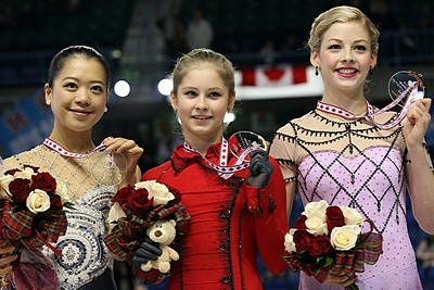 The ladies podium at the 2013 Skate Canada International. From left: Akiko Suzuki (2nd), Julia Lipnitskaia (1st), Gracie Gold (3rd).